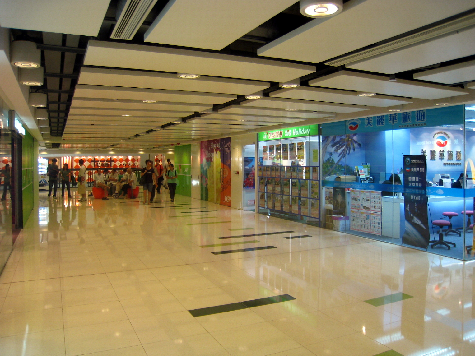 Kowloon City Plaza 九龍城廣場